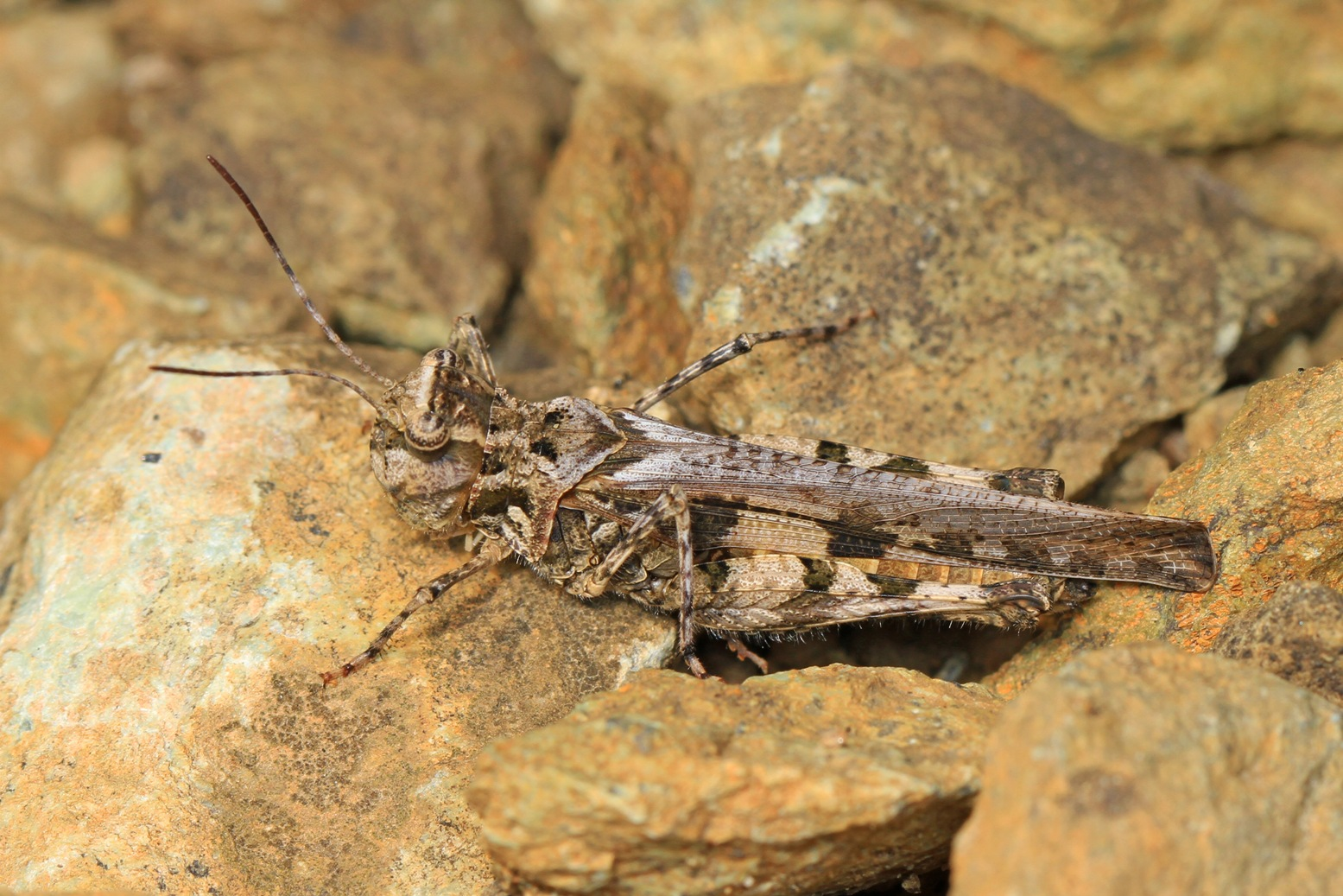 Kiowa Grasshopper - Trachyrhachys kiowa, Soldier's Delight, Owings Mills, Maryland.